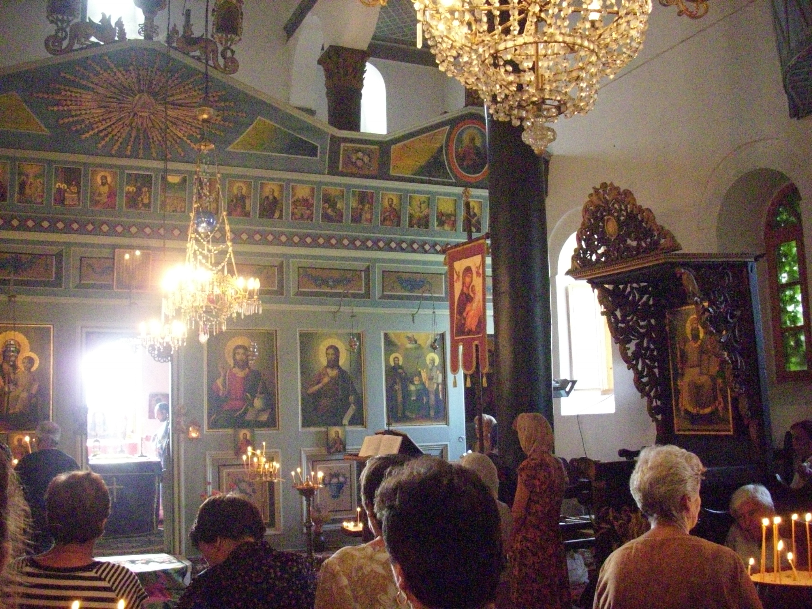 Saint Nicholas Balchik interior